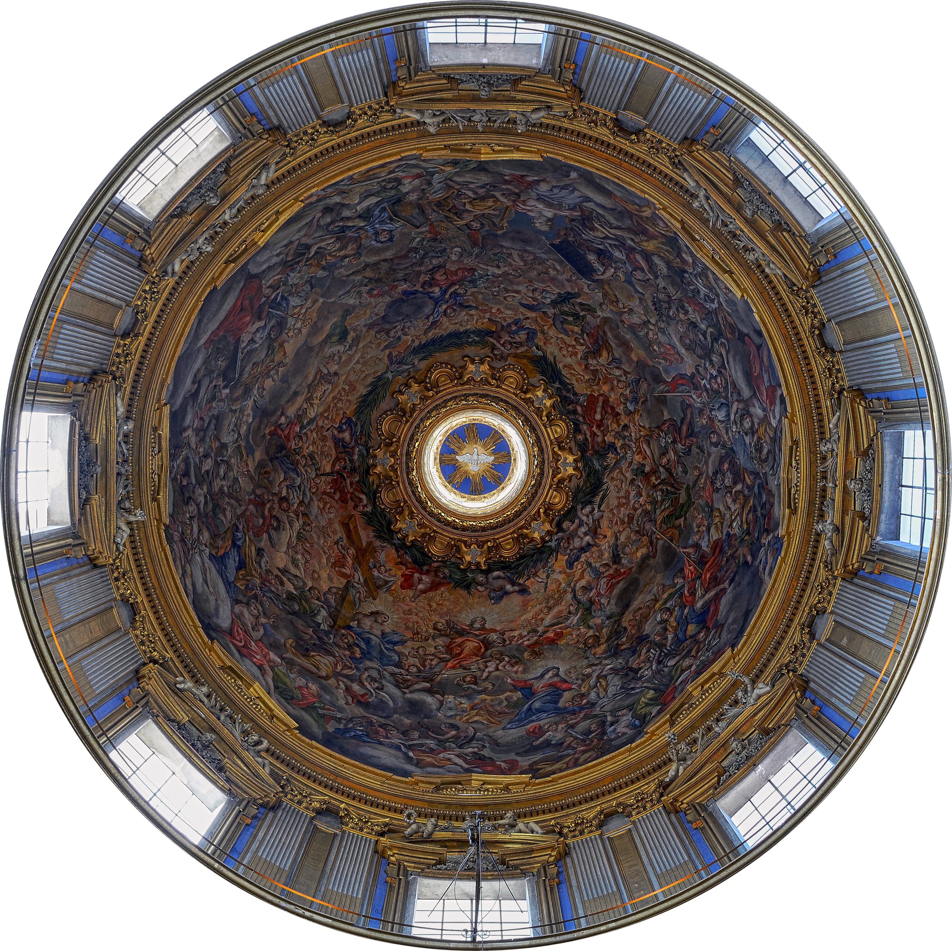 Sant'Agnese in Agone (Rome) - Dome; Ciro Ferri and Sebastiano Corbellini, The Apotheosis Of St. Agnes into the Glory of Heave, Fresco, 1670-1693